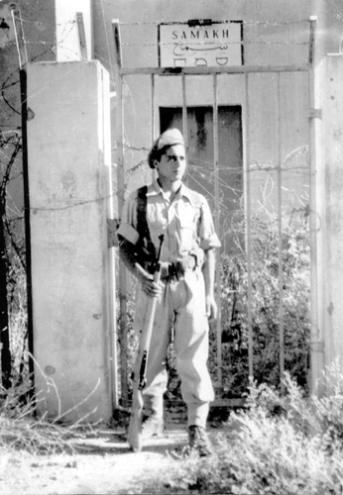 A Palmach fighter at Tzemach during the 1948 Arab-Israeli War.